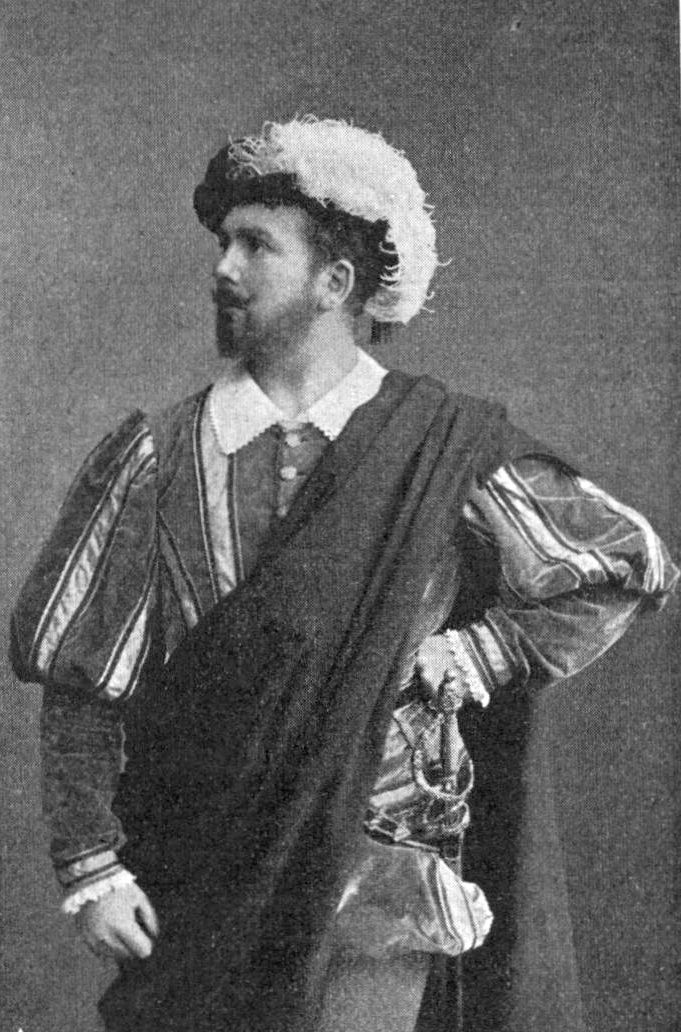 Kurt Sommer (1868-1921) as Raoul in Les Huguenots at The Royal Opera, Stockholm